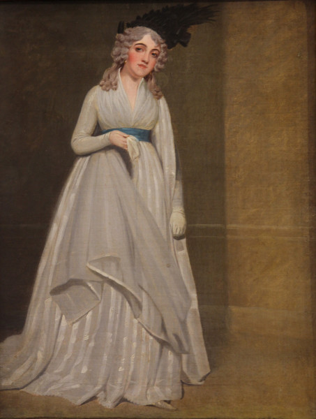 Harriet Pye Esten by Samuel De Wilde died 1865 guess 1763